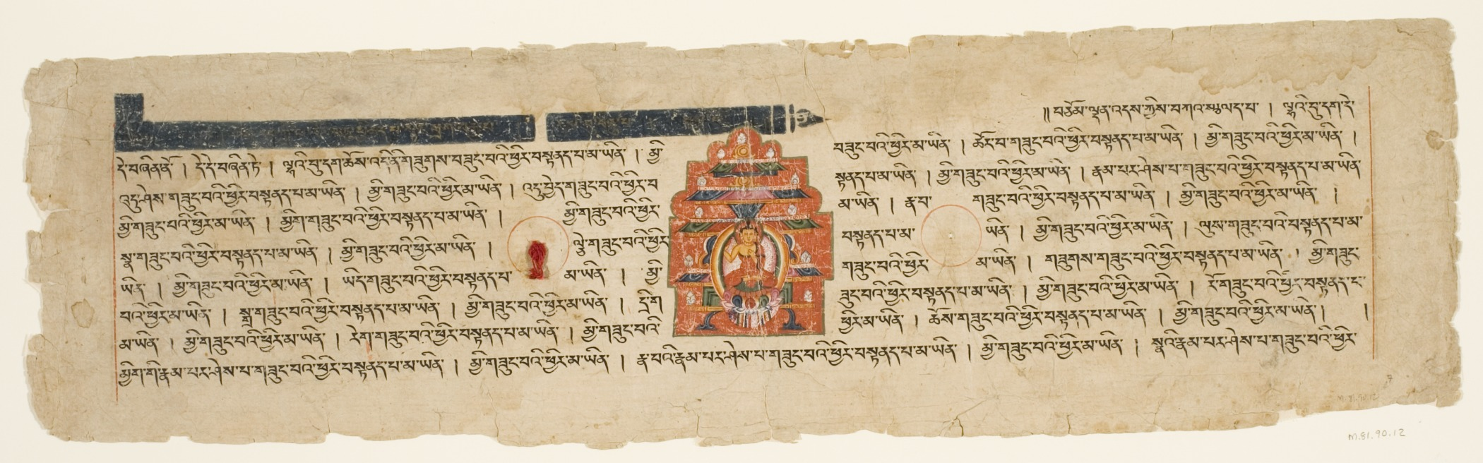 Western Tibet, Maryul district, Tholing Monastery, 11th-13th century (?) Manuscripts Ink, opaque watercolor, and gold on paper From the Nasli and Alice Heeramaneck Collection, purchased with funds provided by the Jane and Justin Dart Foundation (M.81.90.12) South and Southeast Asian Art